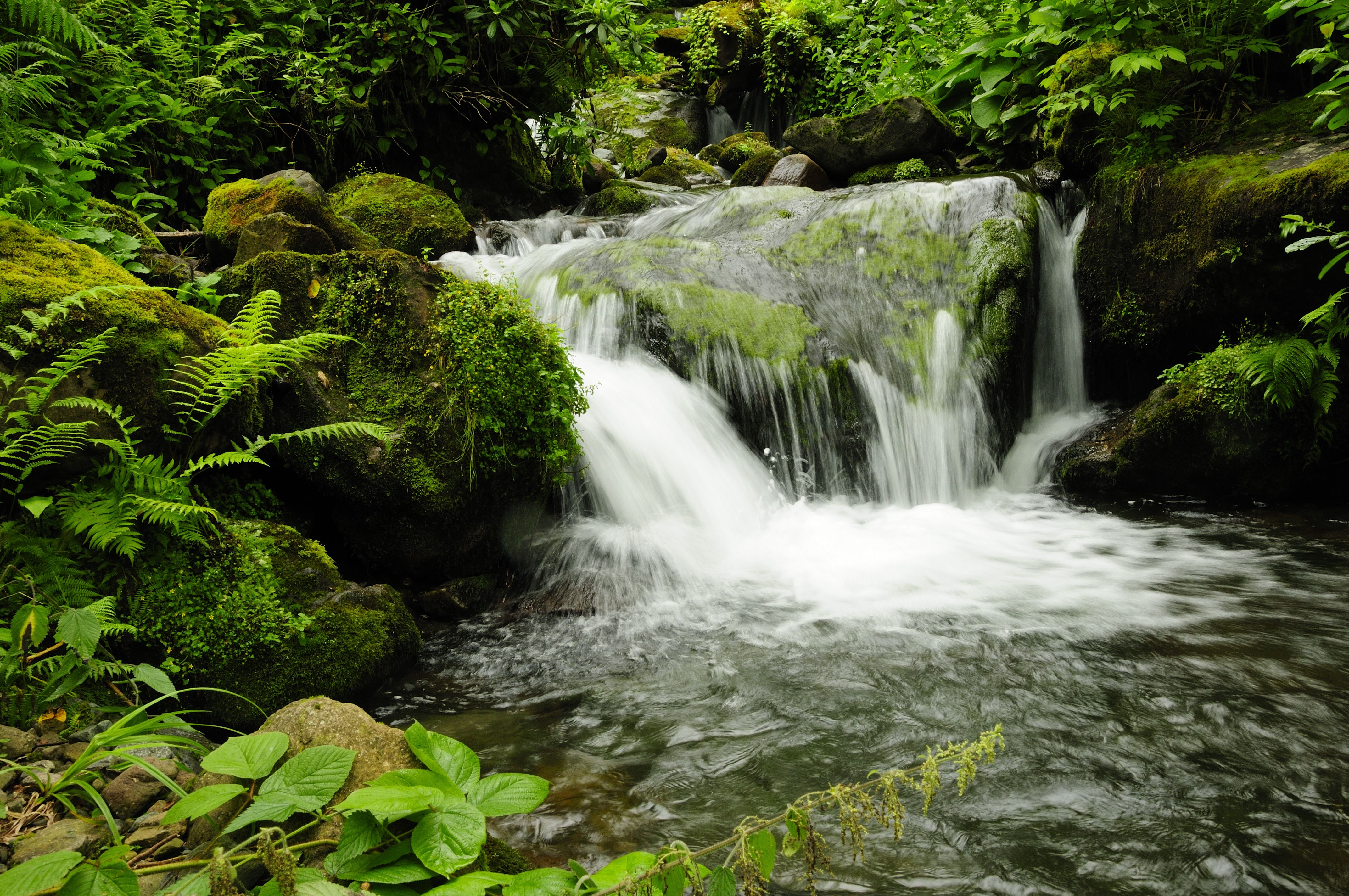 Please report references to .